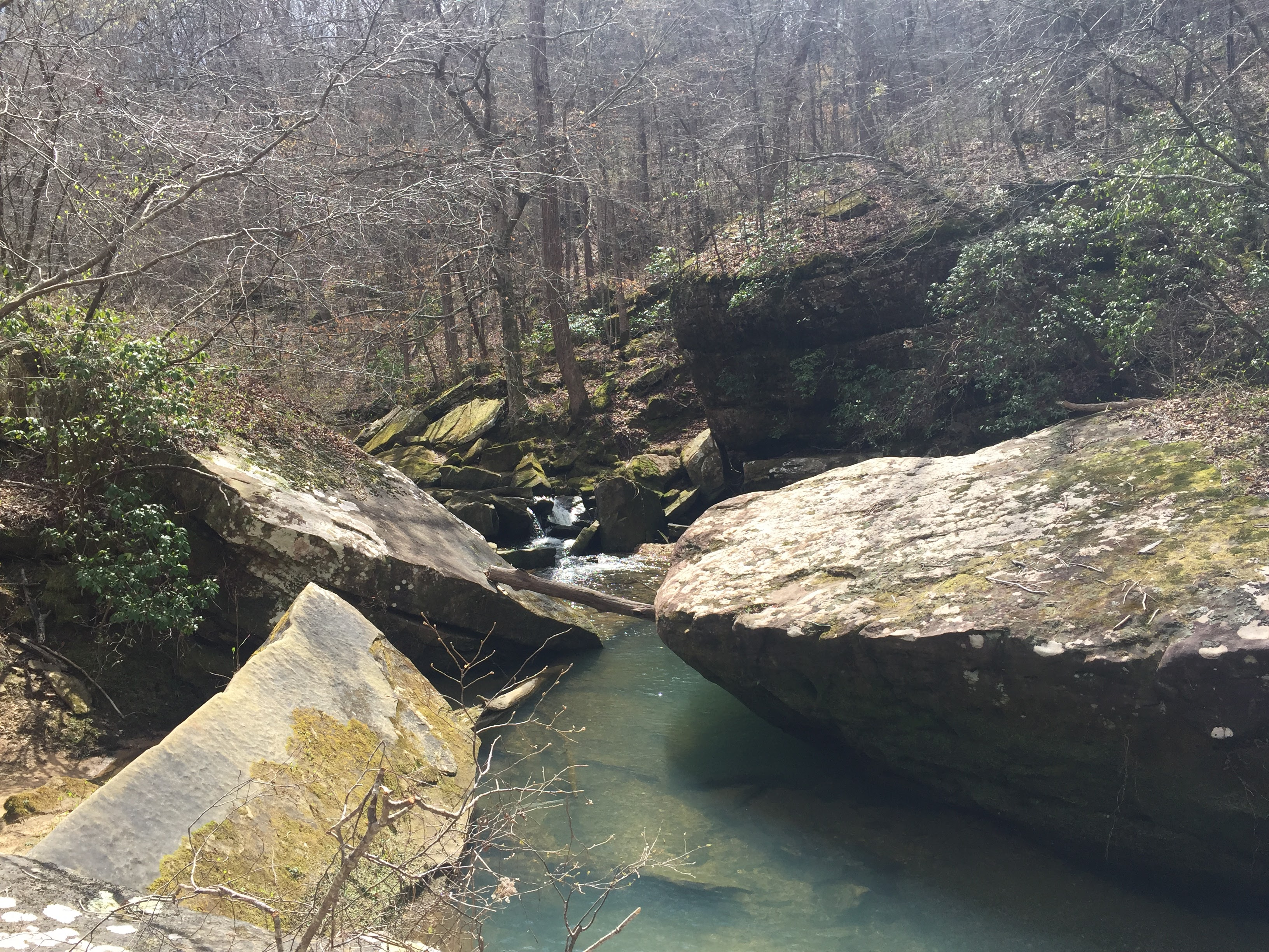 Cane Creek Canyon Nature Preserve in Colbert County, Alabama